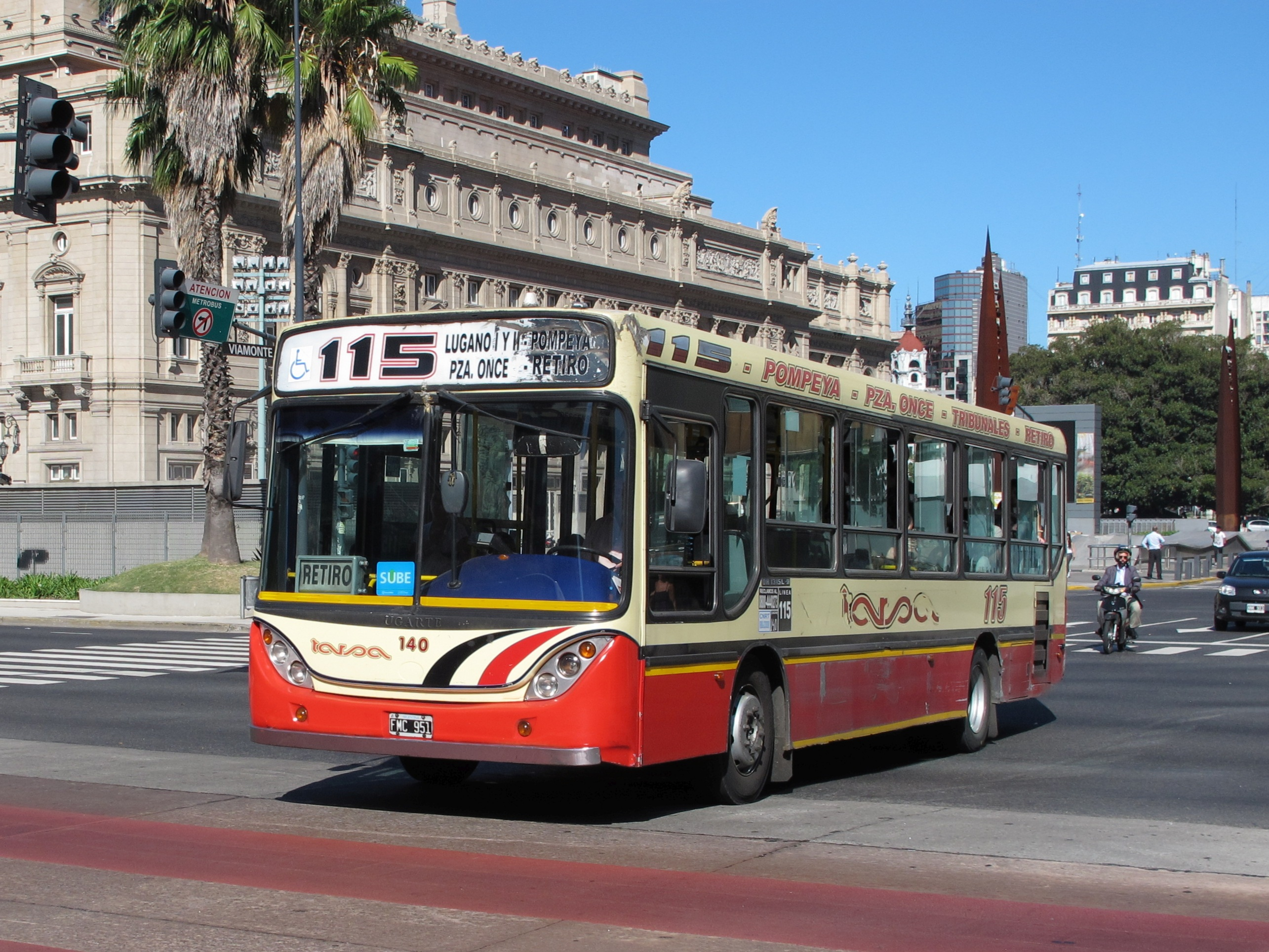 Buenos Aires - Ugarte Mercedes-Benz OH 1315L bus #140 on line No. 115 (Viamonte)